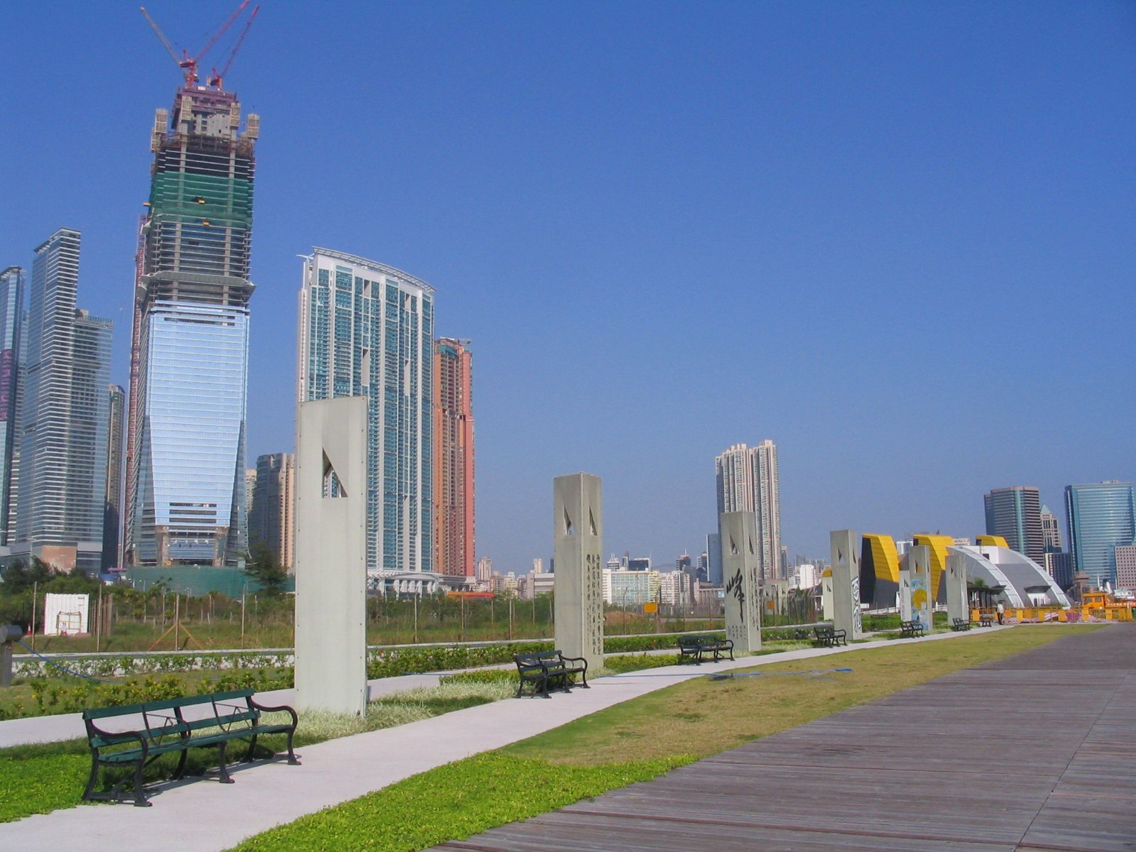 西九龍海濱長廊 West Kowloon Waterfront Promenade